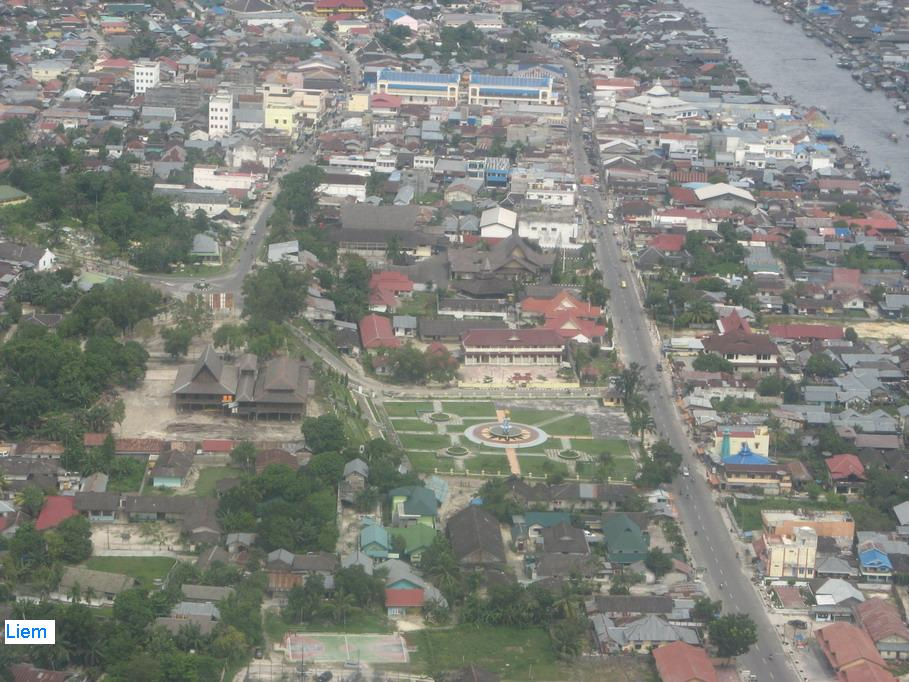 Pangkalan Bun is the administrative headquarters of the District of South Arut (Arut Selatan) and also the capital of West Kotawaringin Regency which is located in the southwest part of the province of Central Kalimantan in Indonesia.